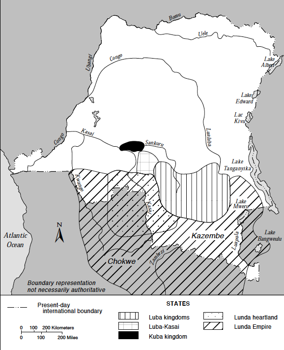 Map of 'Major States in the Southern Savannas, Mid-Nineteenth Century. Based on information from Jan Vansina, Kingdoms of the Savanna, Madison, 1968.' The map includes the Lunda Empire (with the Lunda heartland), the Luba kingdoms, the Luba-Kasai and the Kuba kingdom as they were thought to have been around 1850.